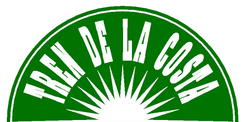 Logo of defunct Argentine company "Tren de la Costa", affiliated to Grupo Soldati.